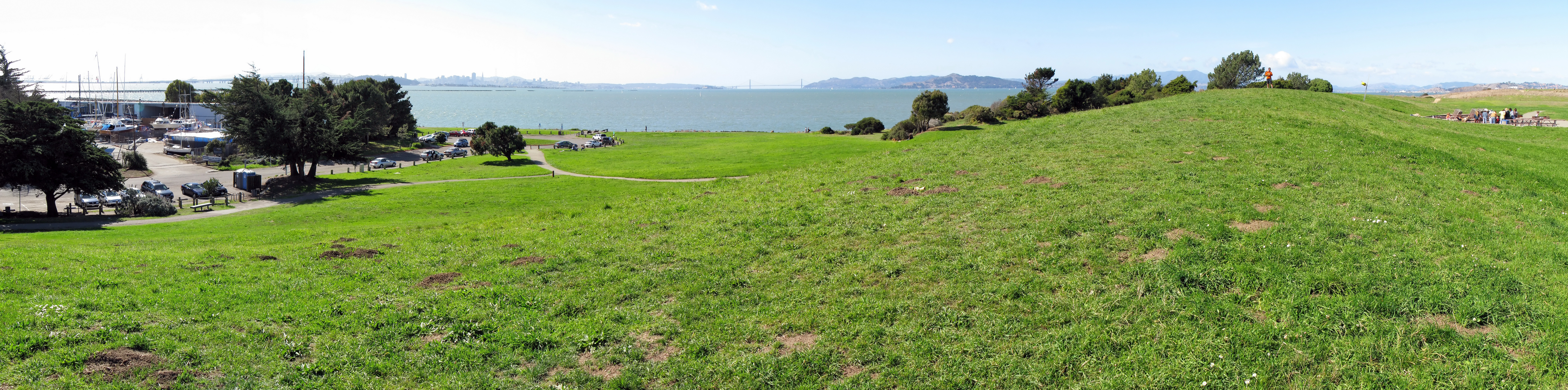 Hillside westward view from César Chávez Park, October 2007. In the distance (from left to right) is the Bay Bridge, San Francisco, Alcatraz, the Golden Gate Bridge, the Marin Headlands and Angel Island.